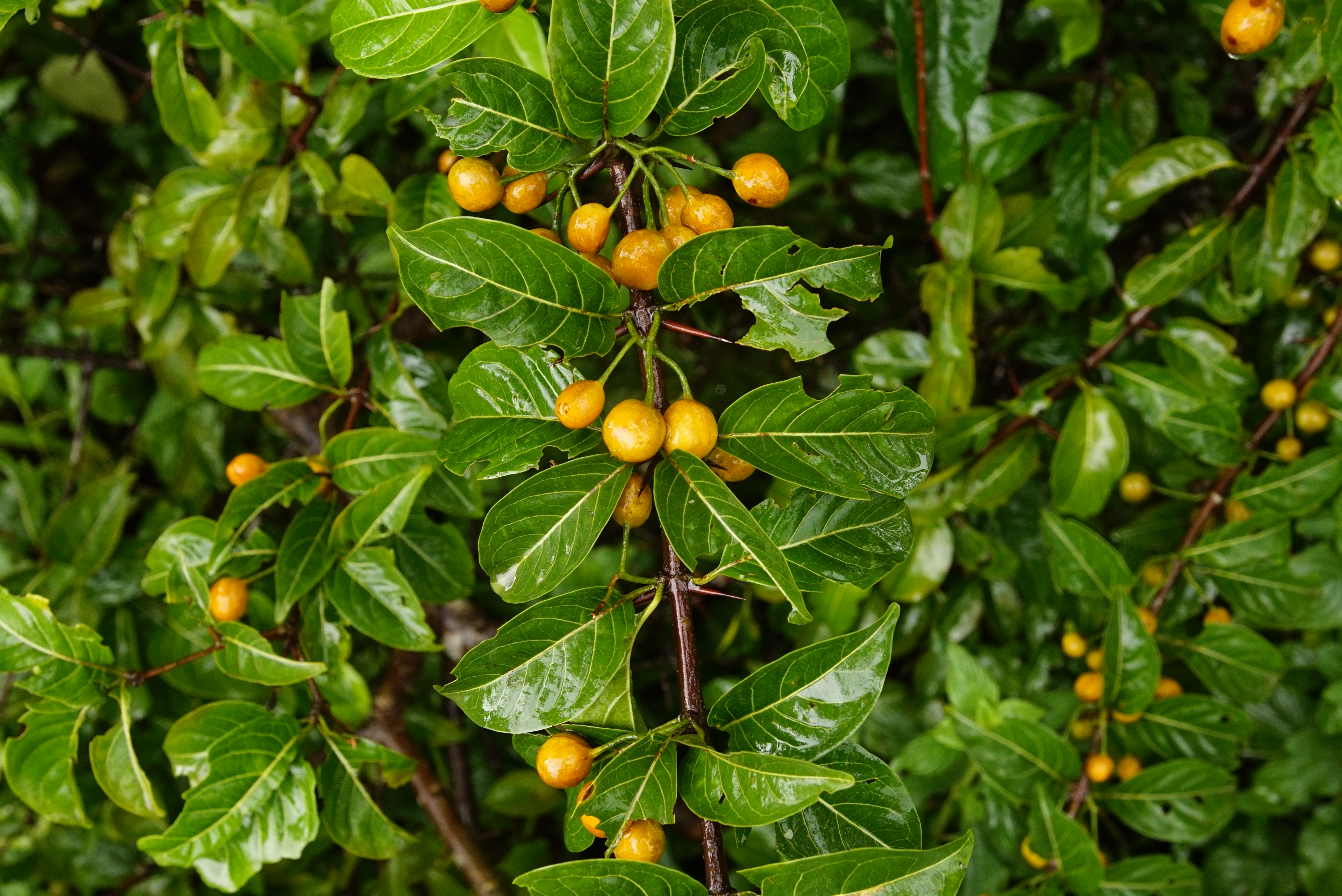 Meyna laxiflora